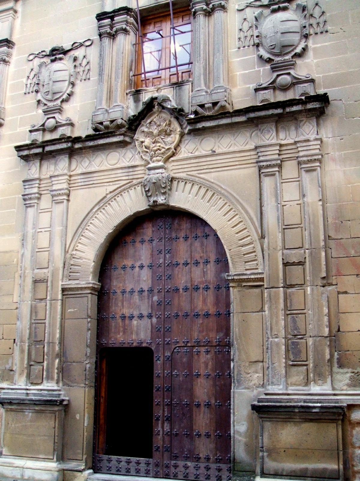 Una de las portadas renacentistas de la Antigua Universidad de Baeza (Jaén, Andalucía, España)